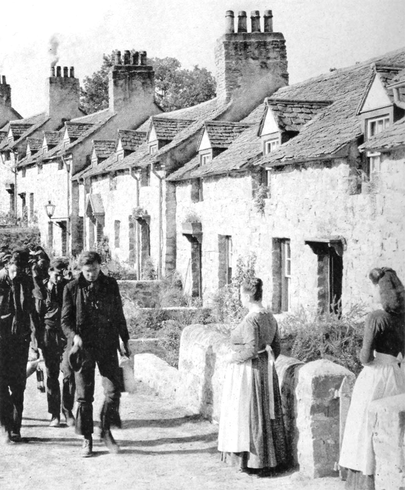 Photo from the 1941 film How Green Was My Valley.